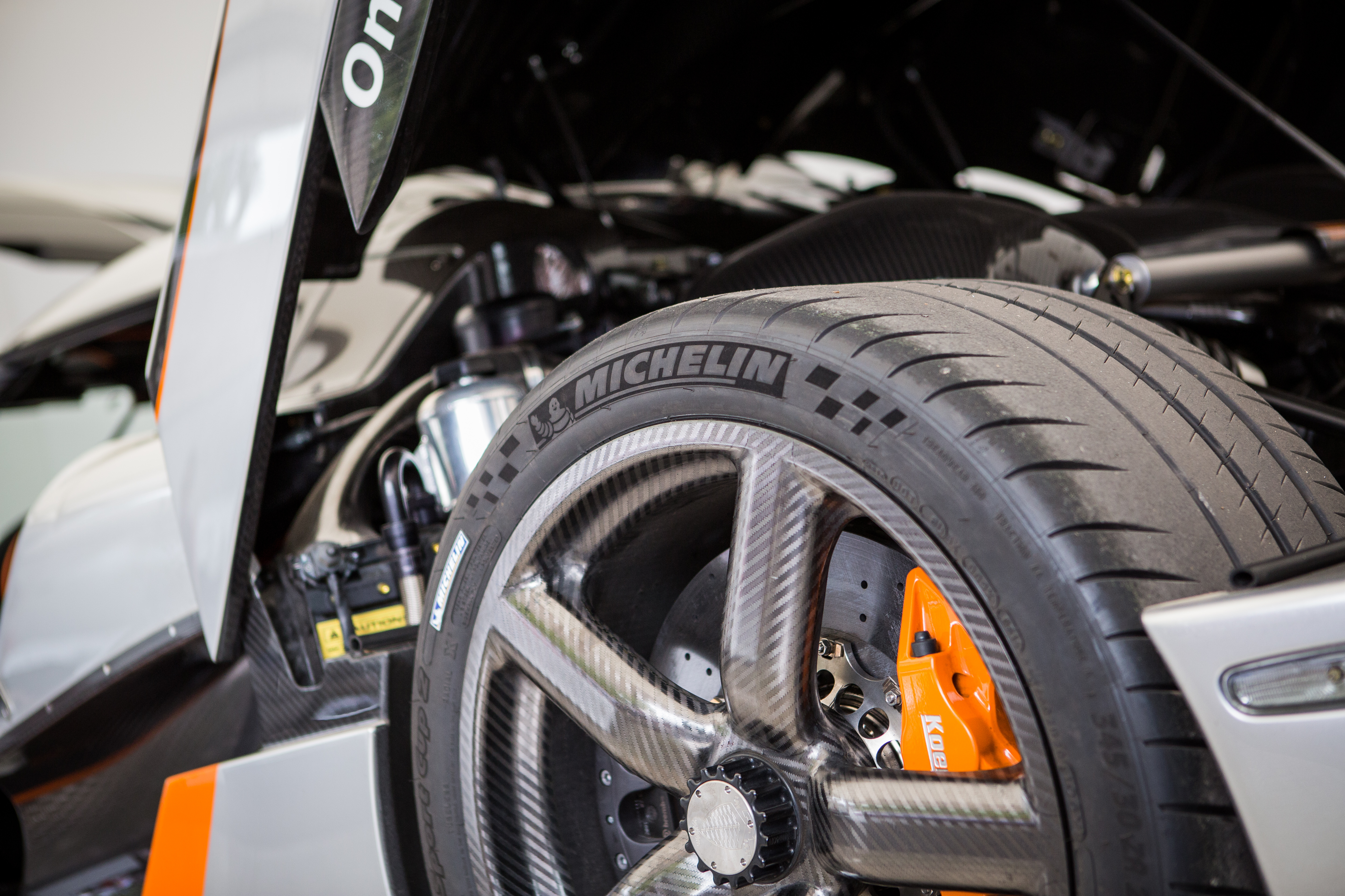 The Koenigsegg One:1 at the 2014 Goodwood Festival of Speed.